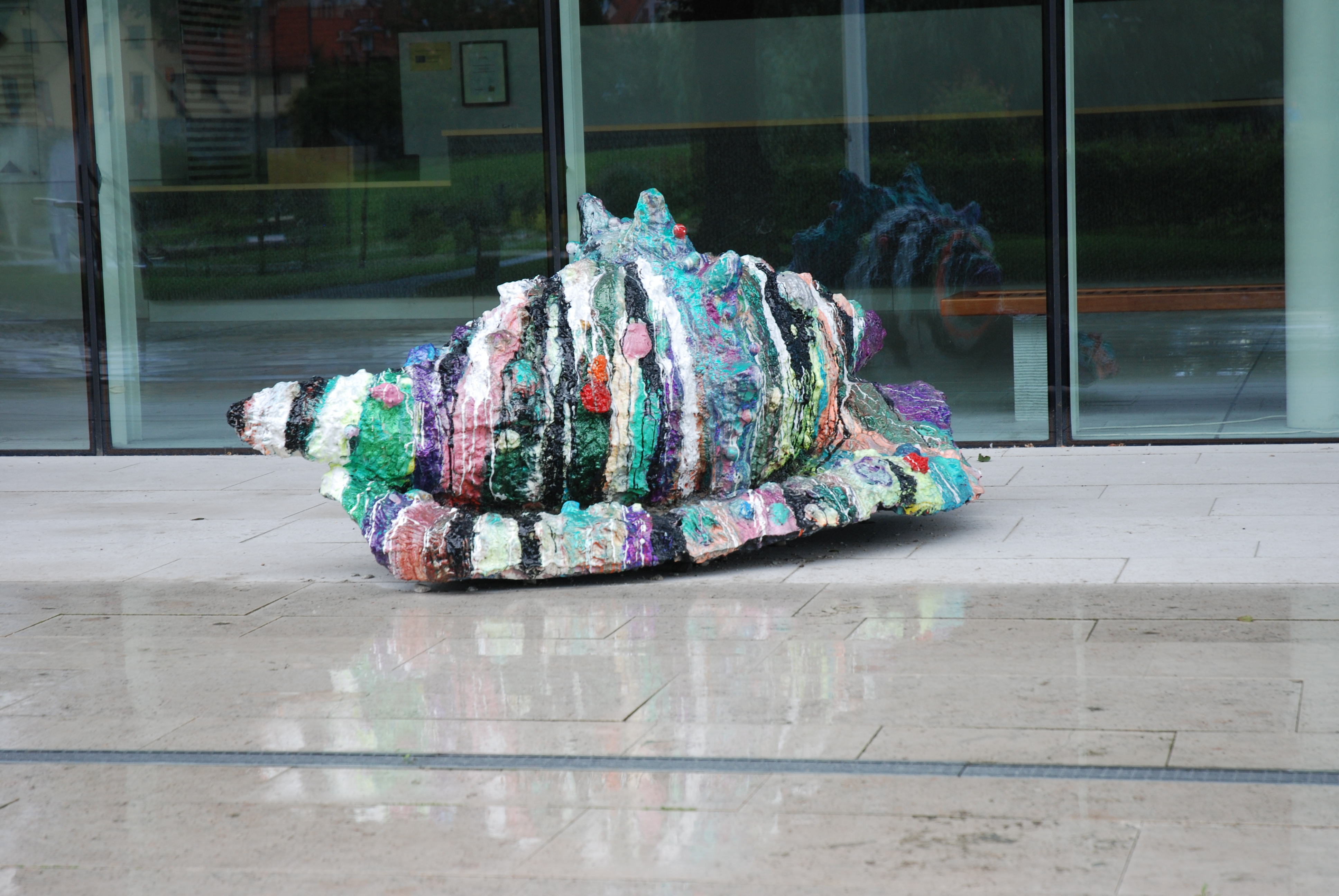 Katarina Norling' s Balladen om vaktchefen outside Wisby Strand in Visby, Sweden